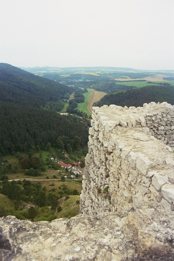 Ruins of Čachtický hrad, Western Slovakia